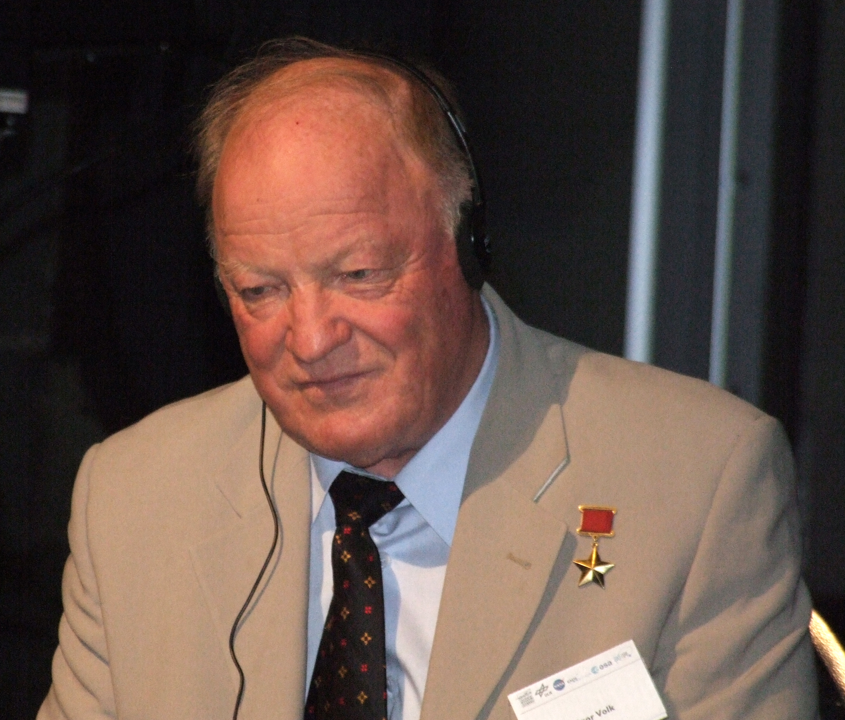 Igor Petrovich Volk (Russian: Игорь Петрович Волк; born April 12, 1937 in Zmiiv, Kharkiv Oblast, Ukrainian SSR) was a cosmonaut and test pilot in the Soviet Union. Here his guest of Technikmuseum Speyer at the opening of the Buran exhibition 2.10.2008. He was the pilot of the OK-GLI shown there.